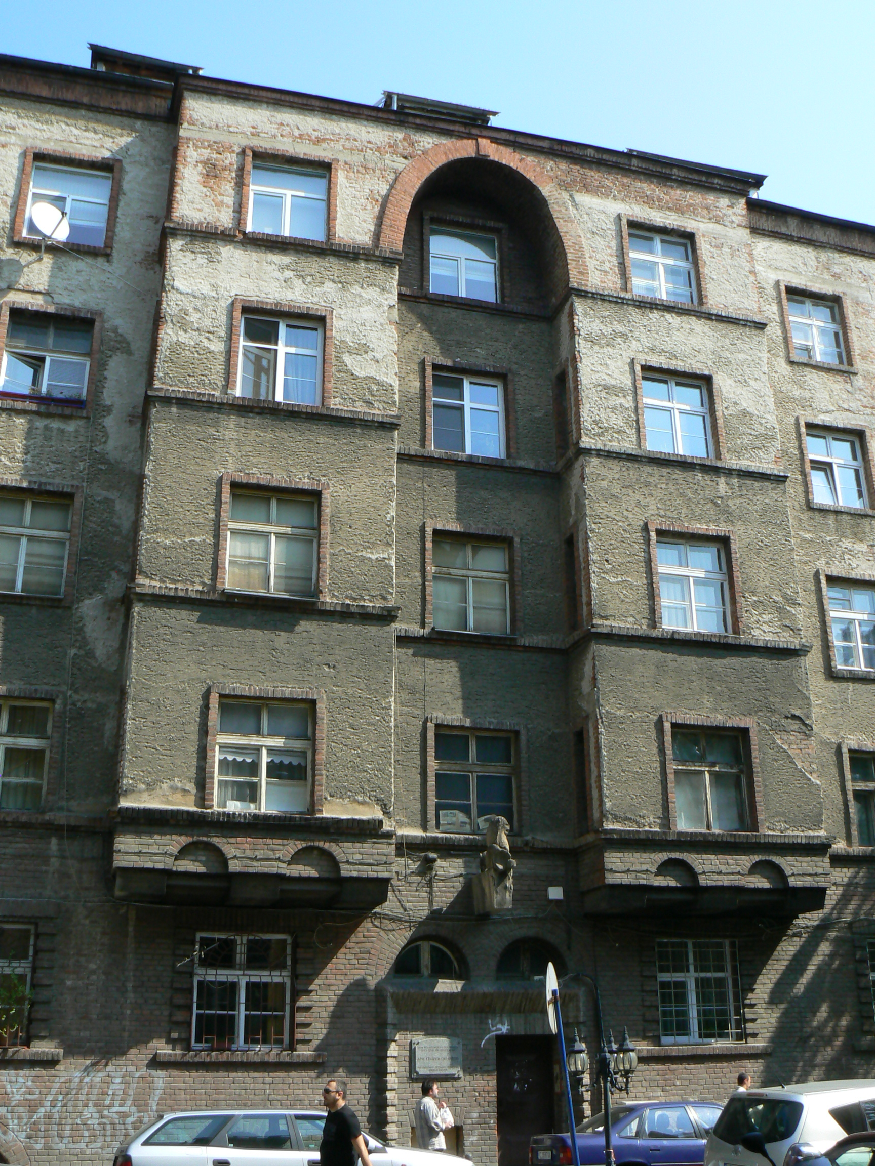 Sofia, Slavyanska Street, the home of architect Georgi Ovcharov